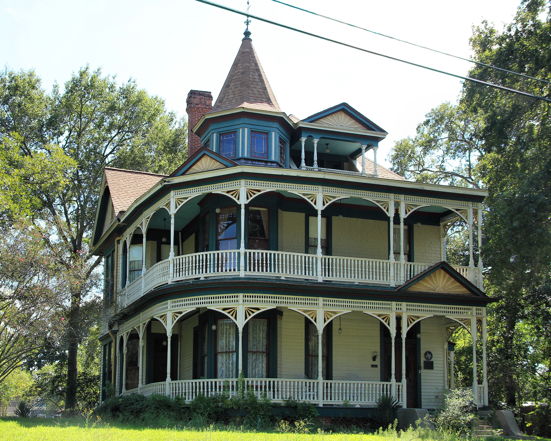 The F. W. Schuerenberg House in Brenham, Texas, United States. Built in 1895, the house is an excellent example of the Queen Anne style. It was listed on the National Register of Historic Places on March 29, 1990 and designated a Recorded Texas Historic Landmark in 1996.